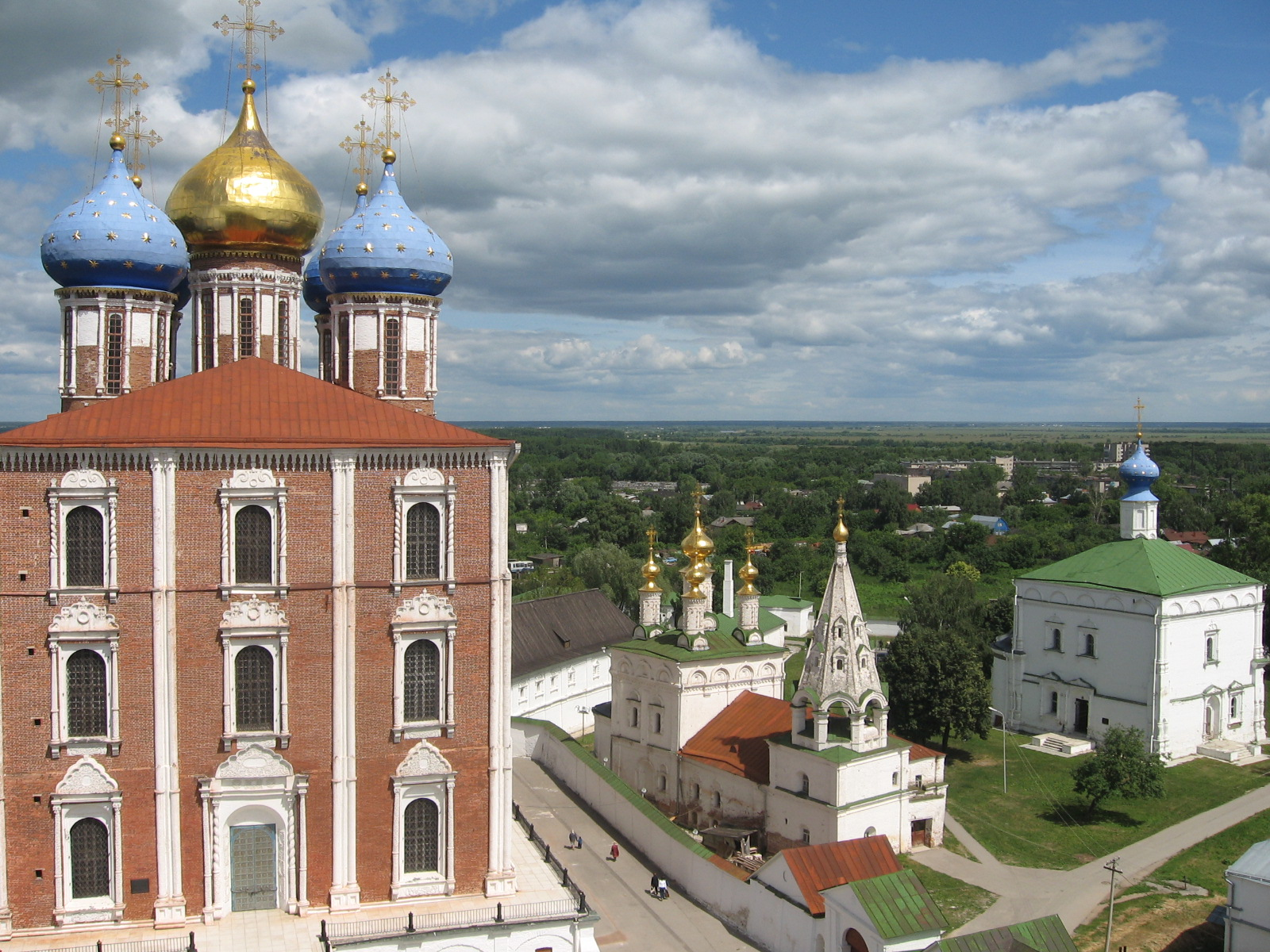 Uspenski Cathedral (Ryazan) (Cathedral of Assumption). Church of Epipnany. Catheral of Transfiguration. View of belltower.